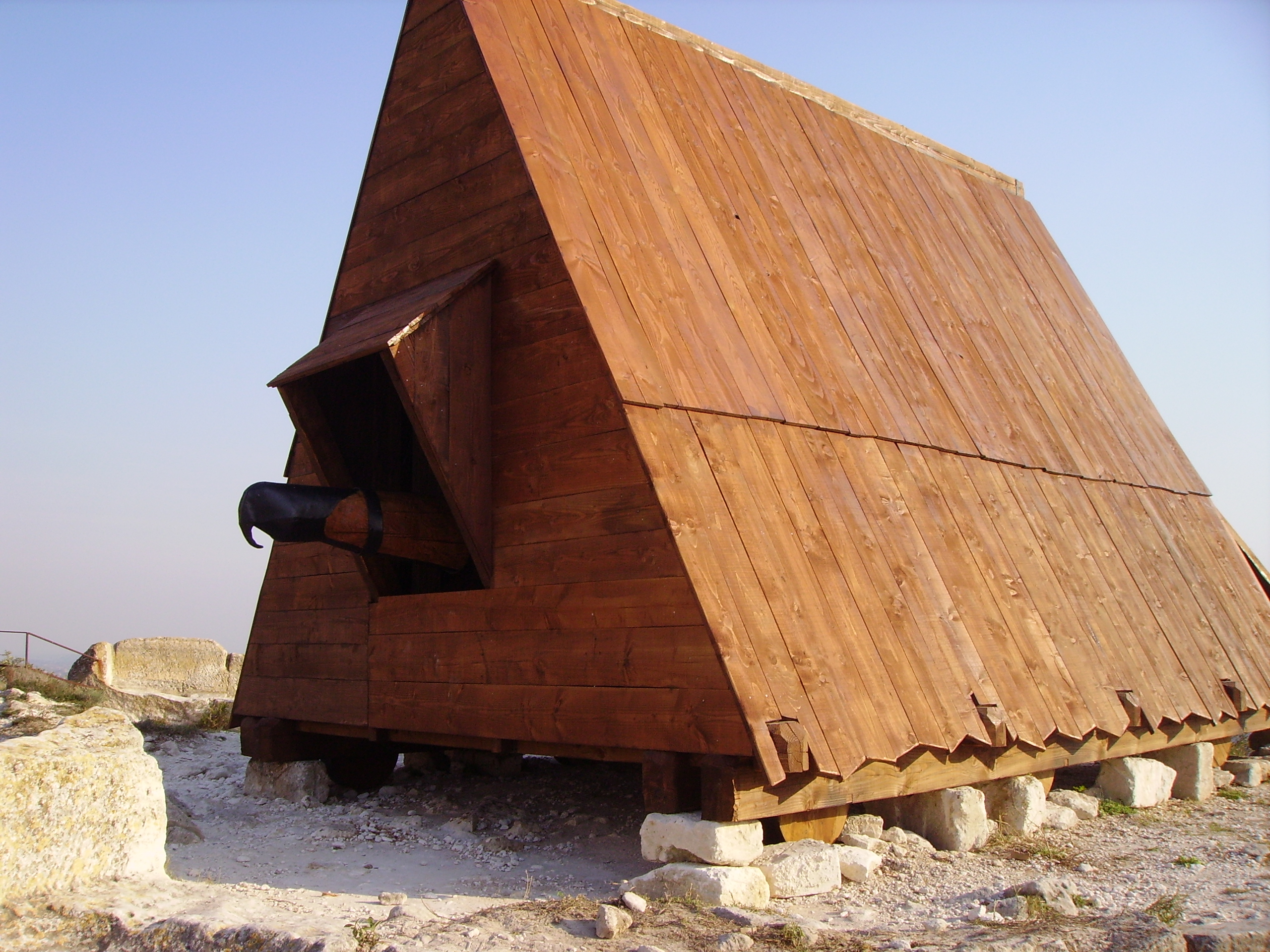 Photographer: User:Ballista